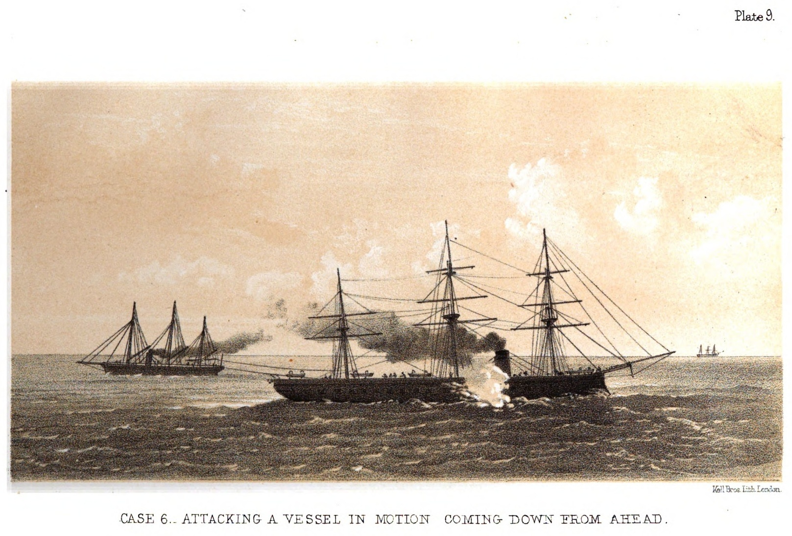 One of the nine tactics of attack with the Harvey torpedo, described in Frederick Harvey's book, Instructions for the Management of Harvey's Sea Torpedo, from 1871, page 36. Clipped from Google scan.